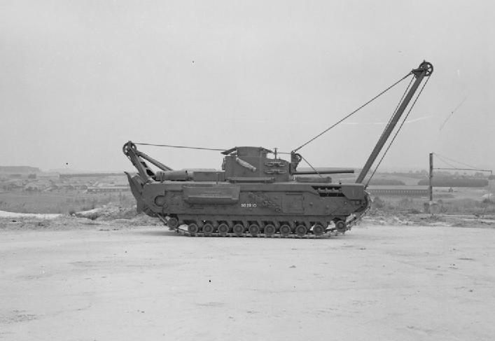 Tanks and Afvs of the British Army 1939-45 Churchill ARV Mk II with front jib erected.